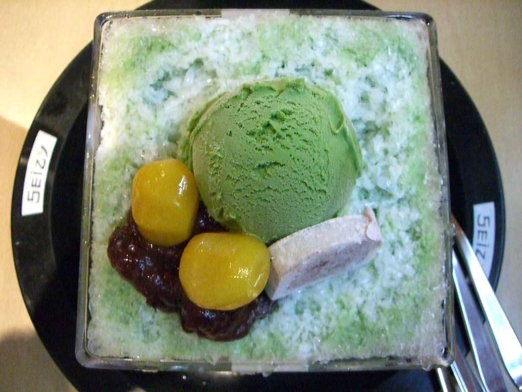 Green tea bingsu (nokcha bingsu) at SEIZI, a green tea shop in the Hongik University area. It is a Korean shaved ice dessert made with green tea power and ice cream.